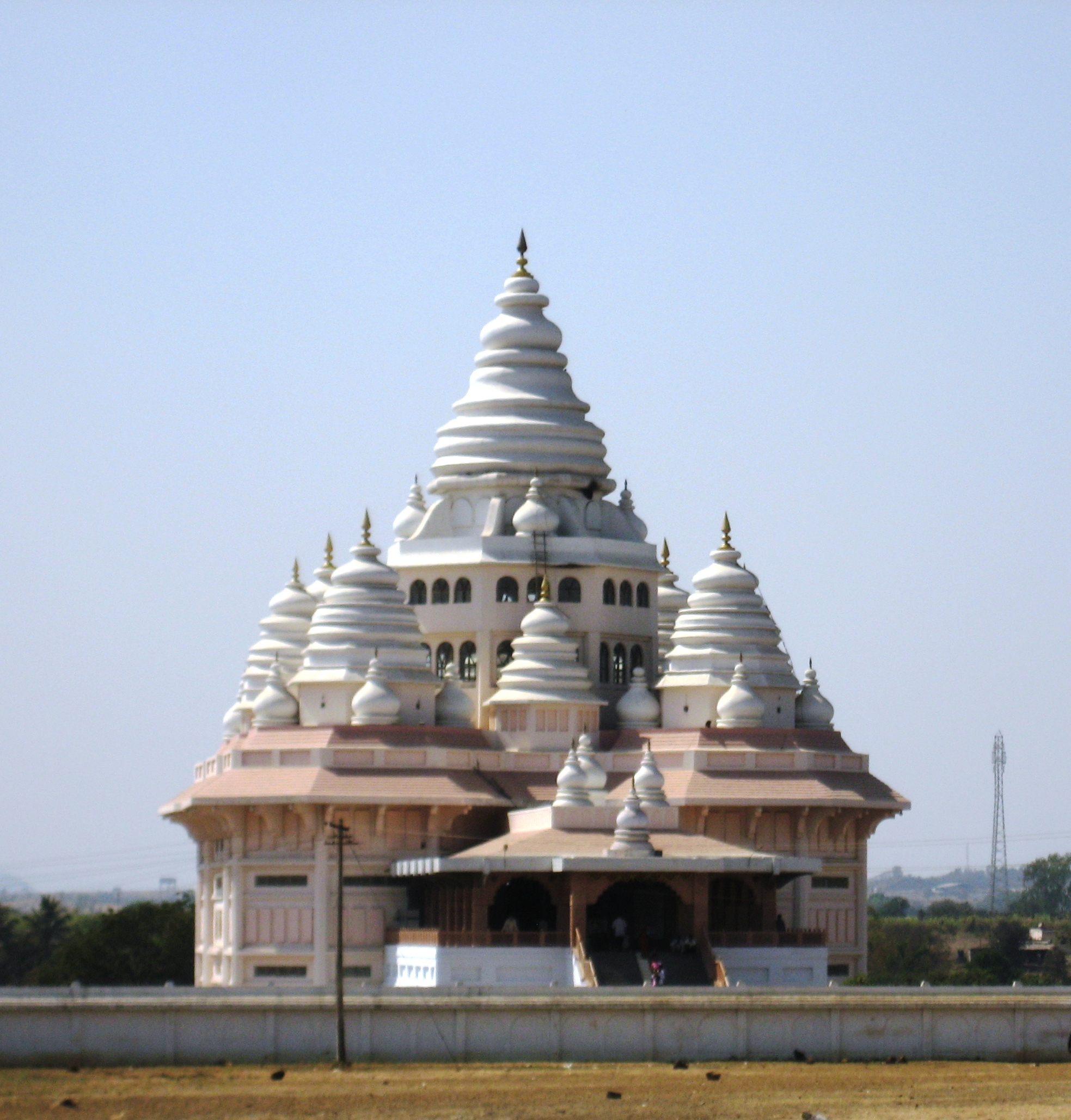 newly built Gatha temple near Dehu (Maharashtra)